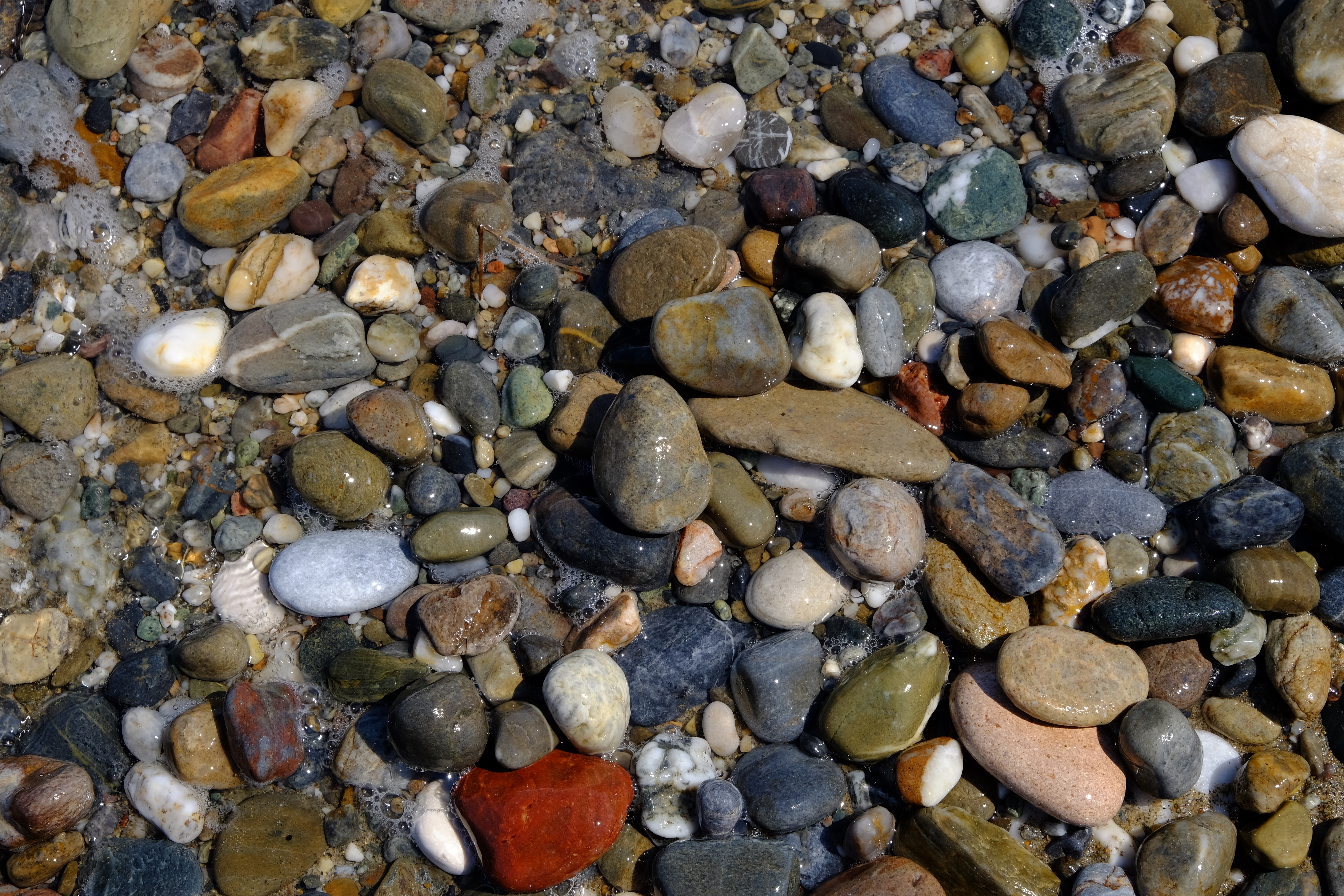 Rethymno's beach is mostly sandy with fine grained sand. However, the strip where the waves break is often covered with multicolor pebbles and cobblestones. See the context of this picture at File:Rethymno beach on a Summer day 2.JPG.